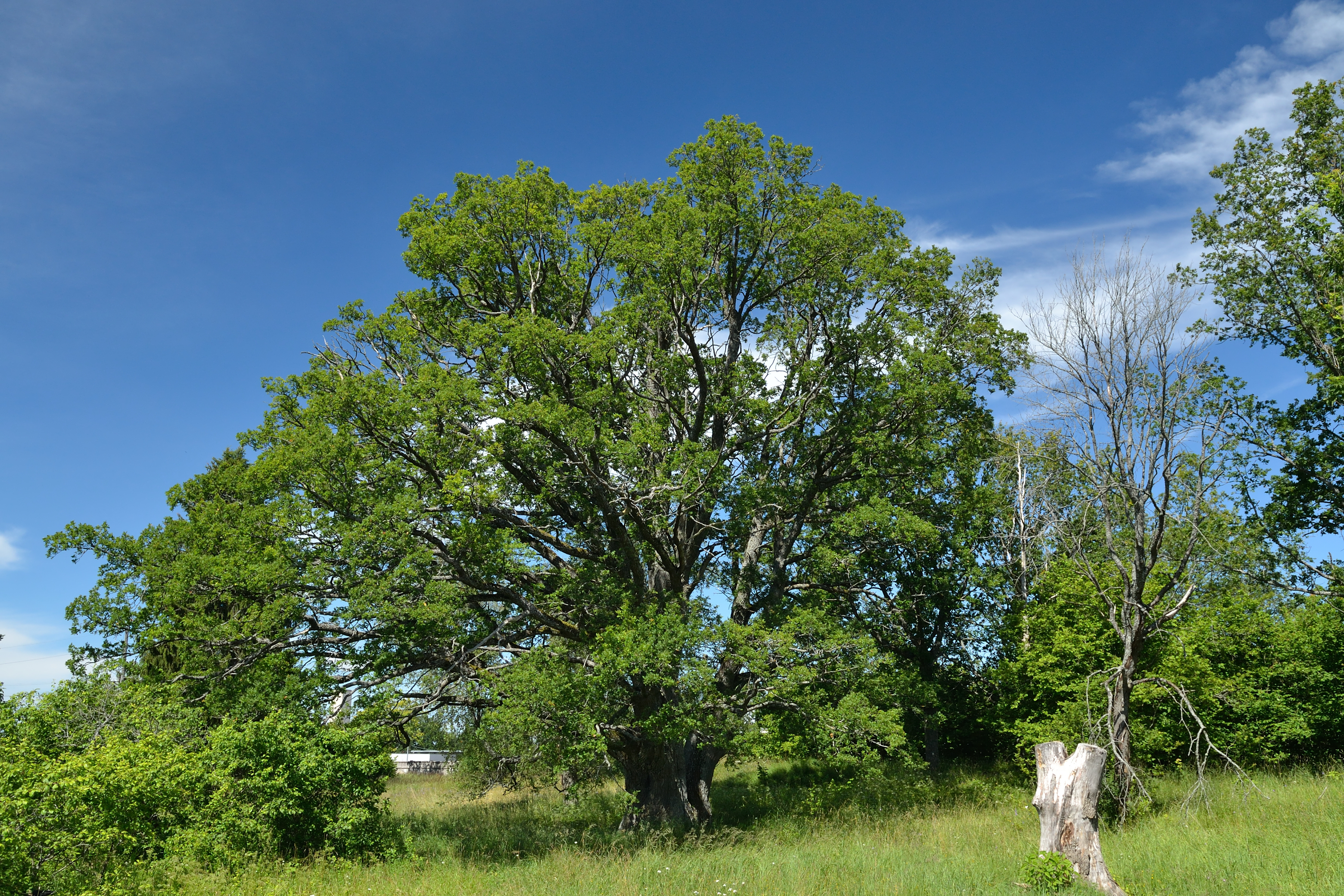 Liivaaugu ("Sandpit") oak (Quercus robur). Age over 300 years